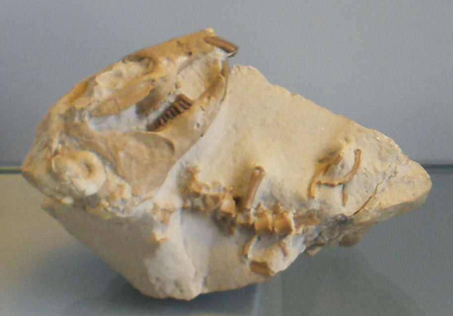 fossil palaeolagus